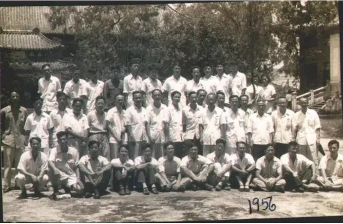 Photo of teachers at South China Institute of Technology (currently South China University of Technology) in 1956